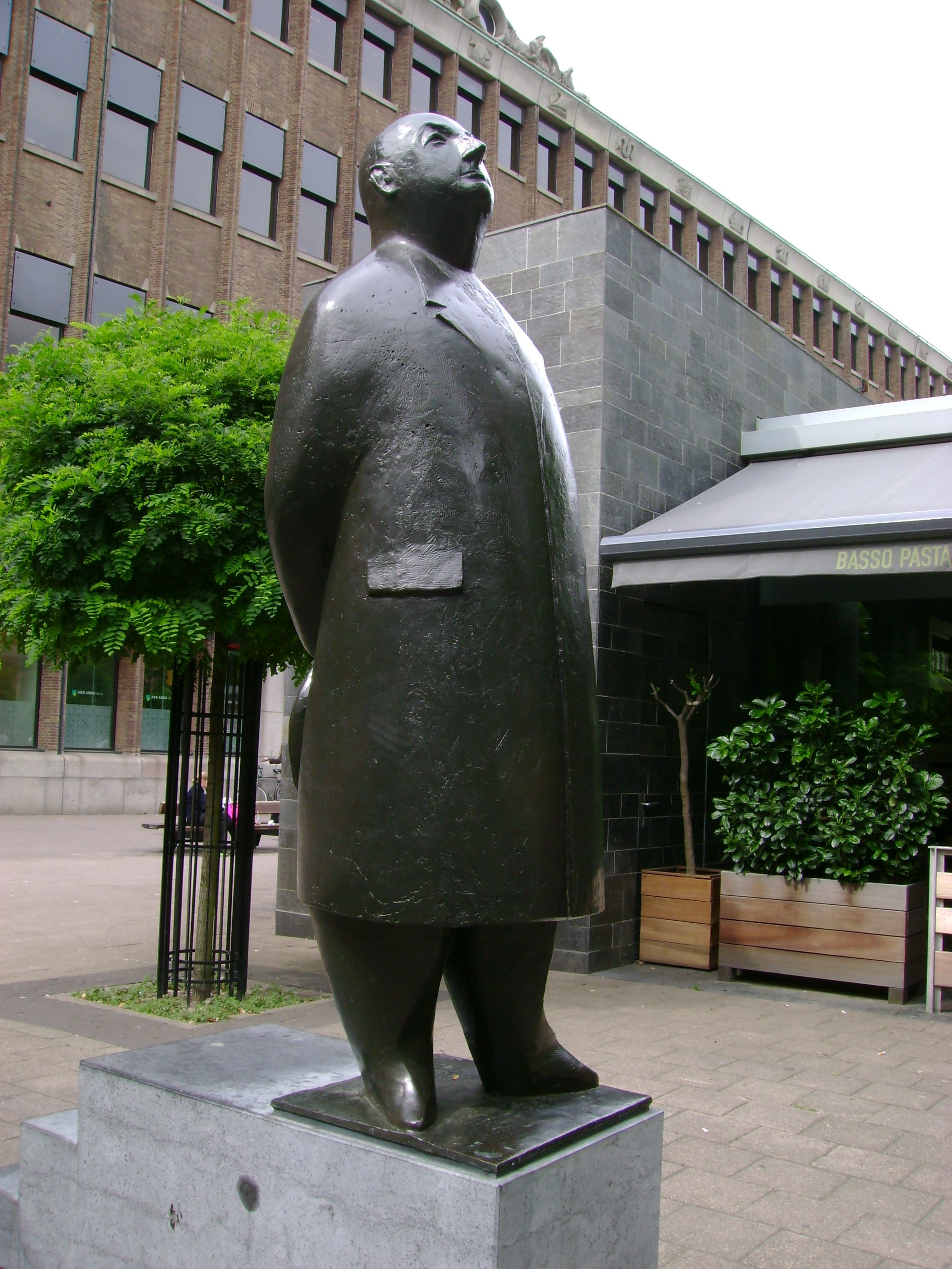 sculpture "Monsieur Jacques"(1956) by Oswald Wenckebach in Rotterdam/The Netherlands